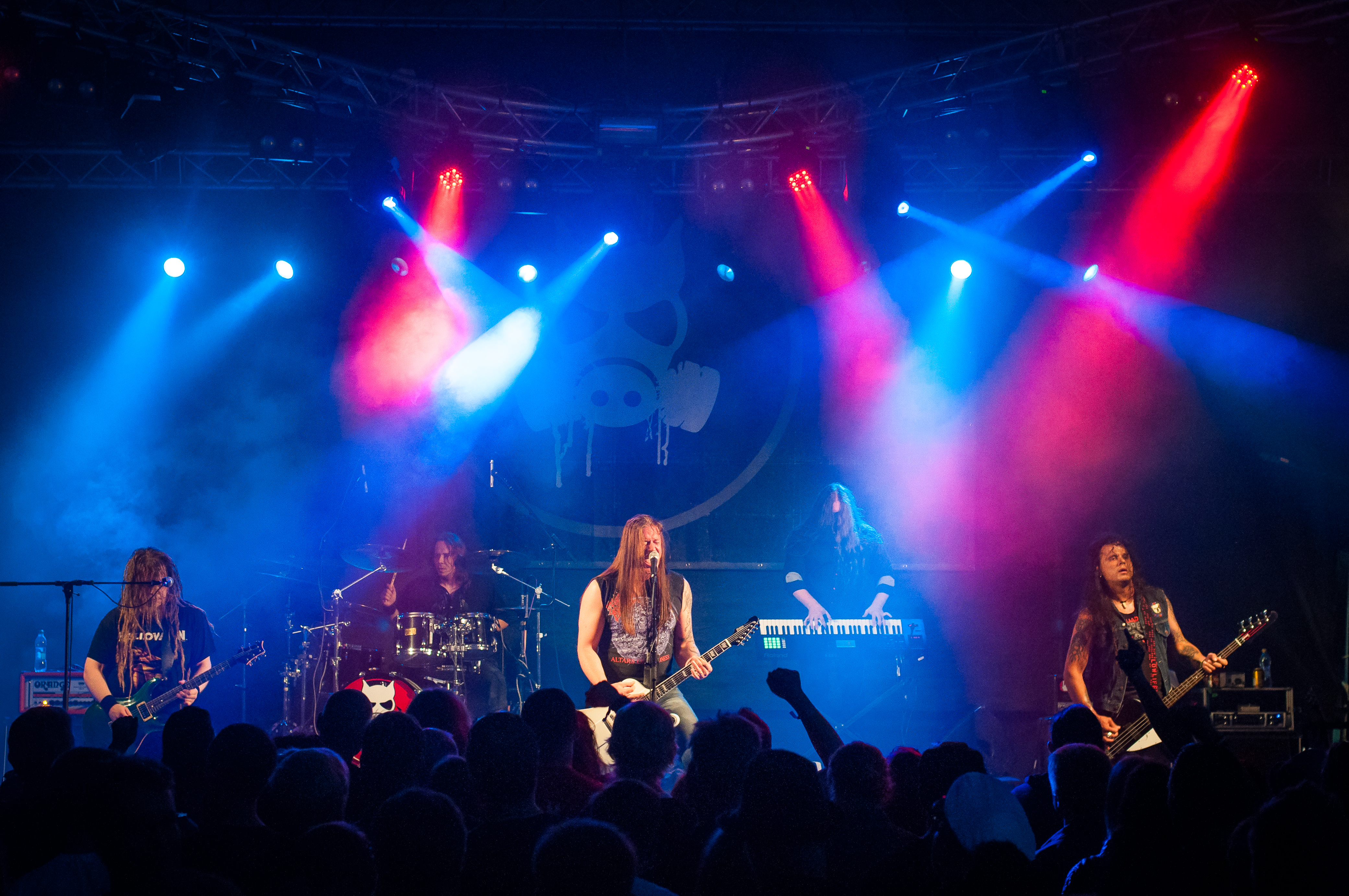 Finnish metal band Poisonblack performing at the 2014 Rakuuna Rock festival in Lappeenranta, Finland.